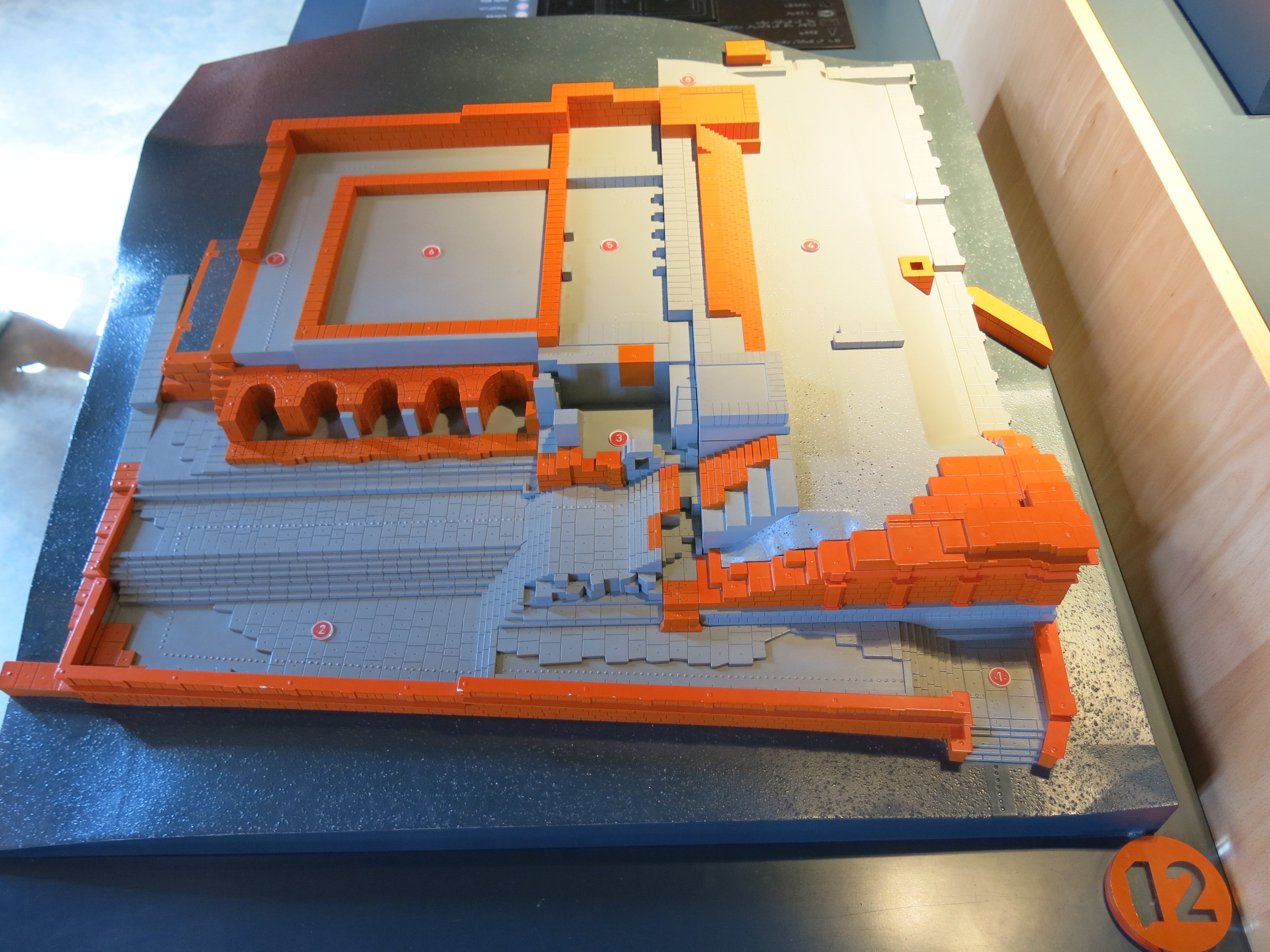 Model of the Mercury temple (Puy-de-Dôme, France) with the cursus of pilgrims : 1=Entrance 2=Theater for religious spectacles (300 seats) 3=Dedication hall where were exposed some precious objects 4=Eastern terrace with view up to Clermont-Ferrand 5=Pronaos (vestibule of the temple) 6=Cella : the shrine whose access was forbidden to pilgrims 7=Gallery for riding of pilgrims 8=Presumed exit